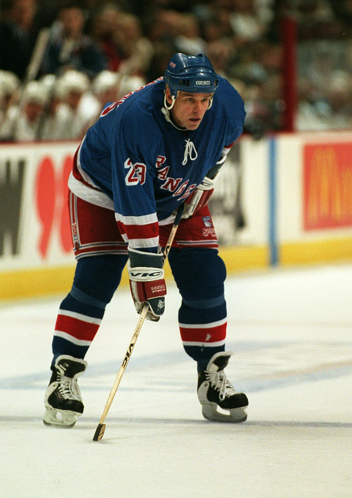 Jeff Beukeboom of the New York Rangers, playing an NHL game in Vancouver.